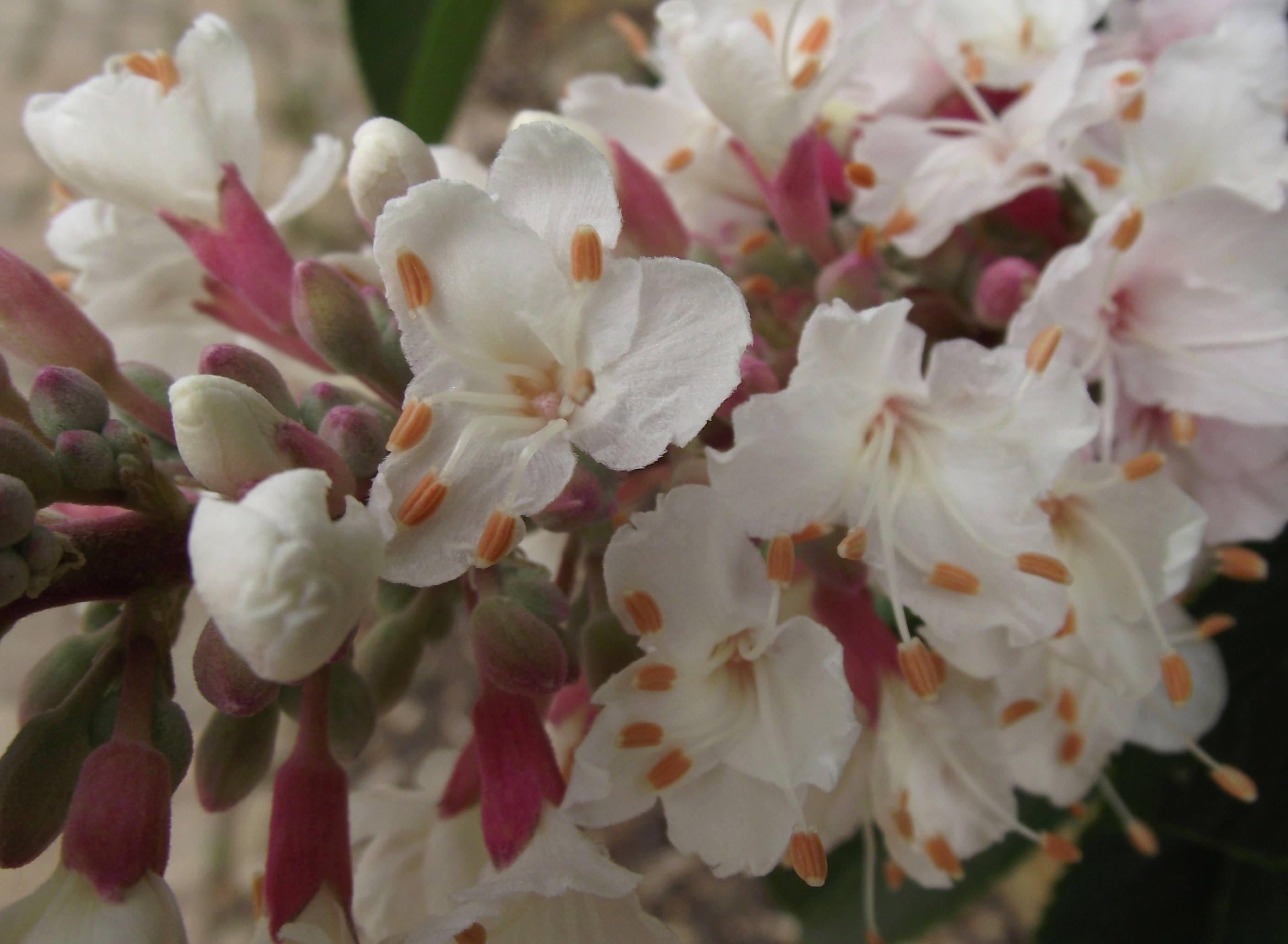 Aesculus californica at Santa Barbara Botanic Garden, Santa Barbara, California, USA. Identified by sign.